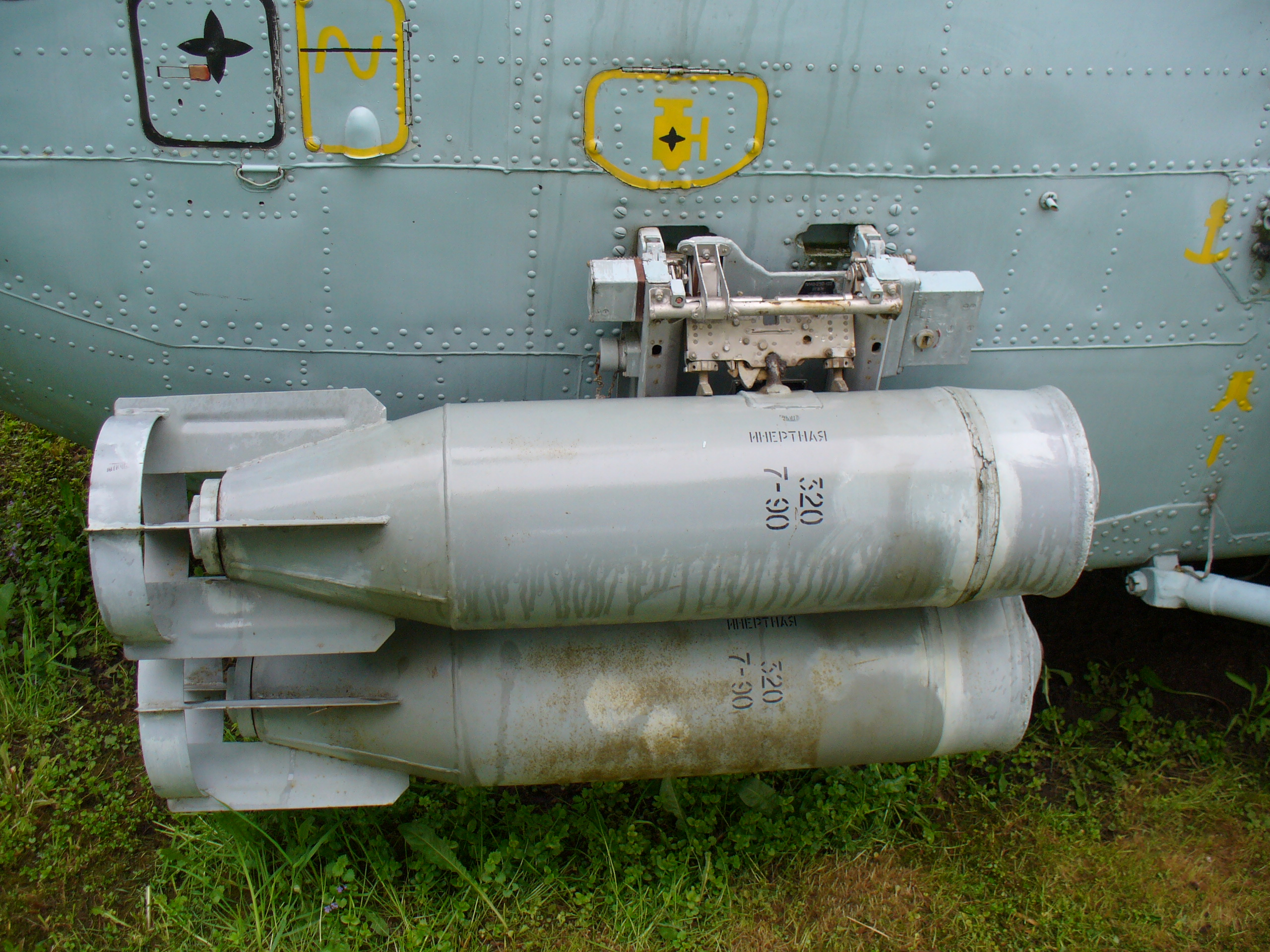 Ka-27PL. NATO reporting name Helix-A. Anti-submarine warfare helicopter. Air-dropped bombs close-up. Ukrainian Air Force Museum in Vinnitsa.